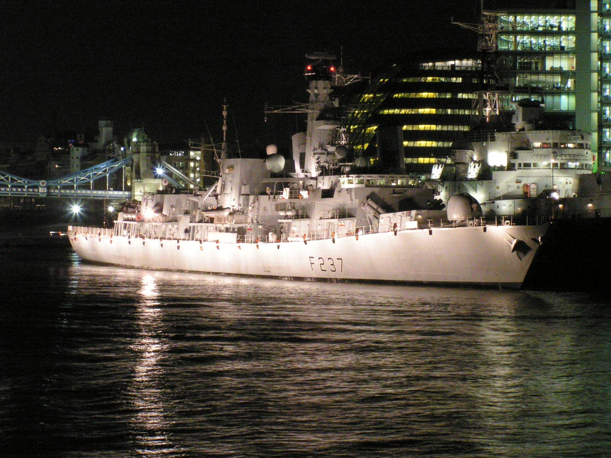 HMS Westminster moored alongside HMS Belfast in the Pool of London, 12th December 2005.